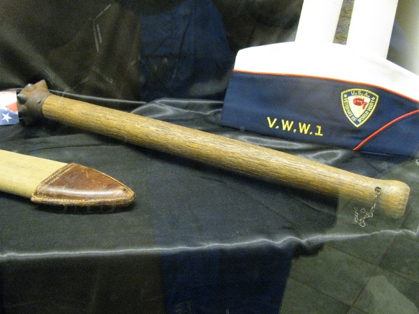 Infantry melee weapon from World War One at a display.